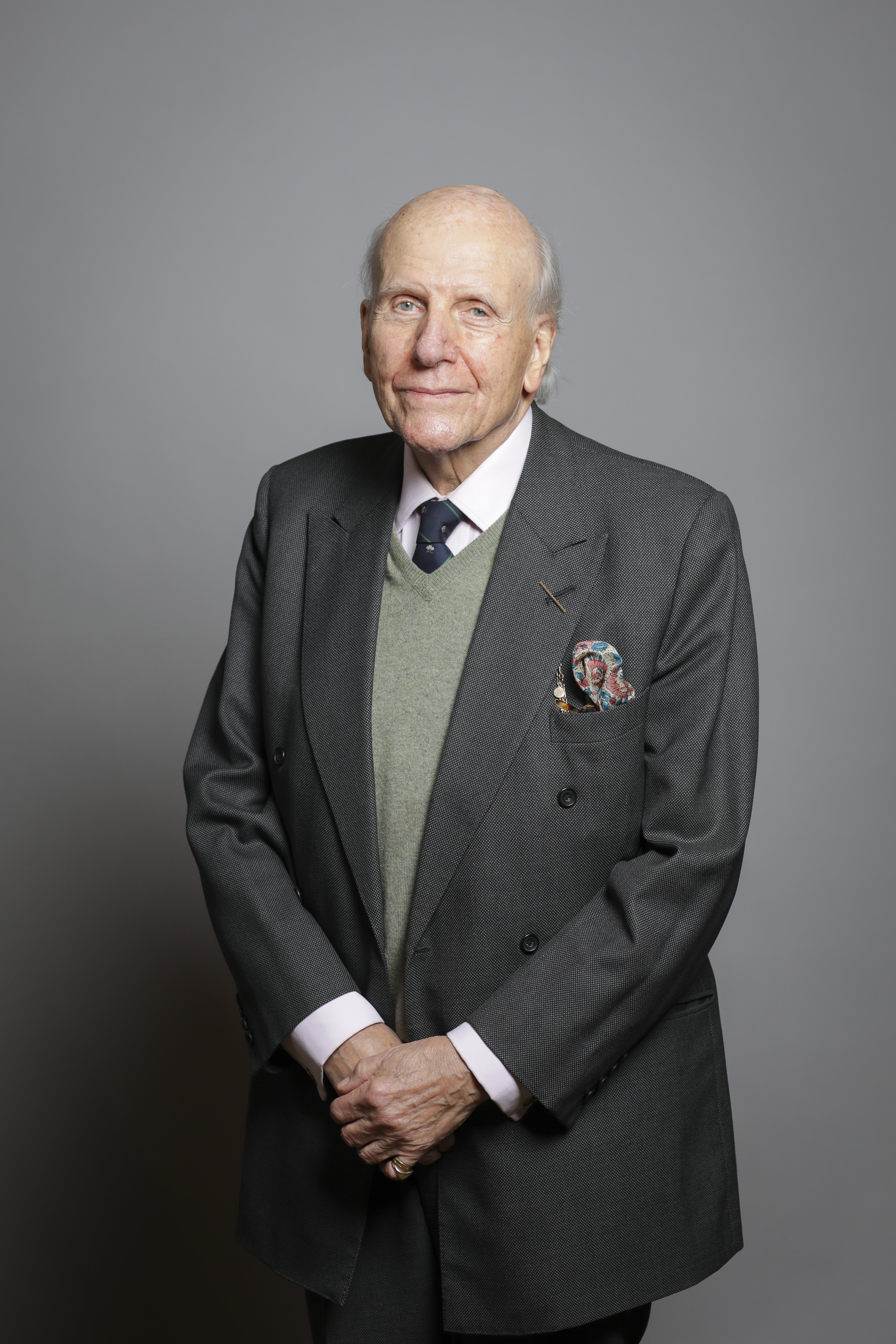 Official portrait of Lord Rowe-Beddoe Full sized portrait of Lord Rowe-Beddoe